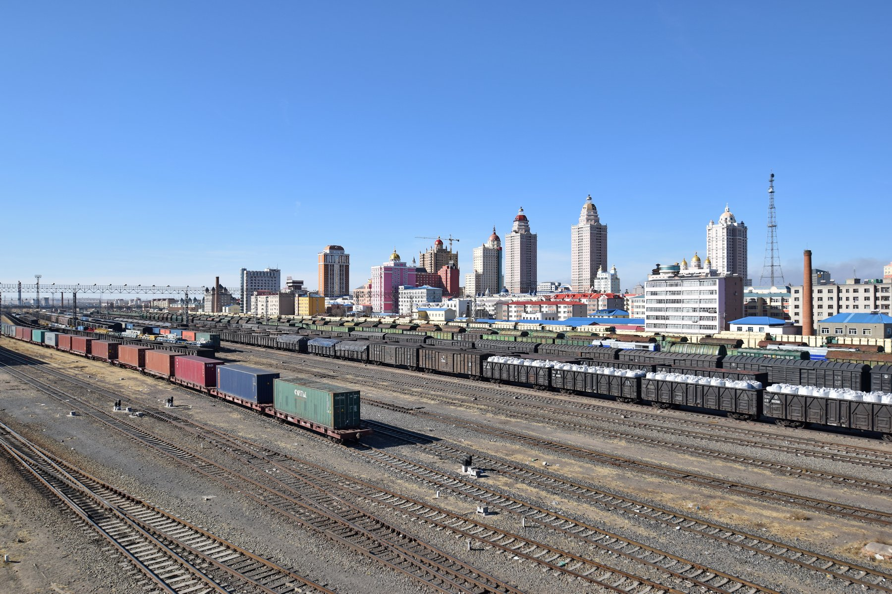 Rail tracks at Manzhouli Railway Station